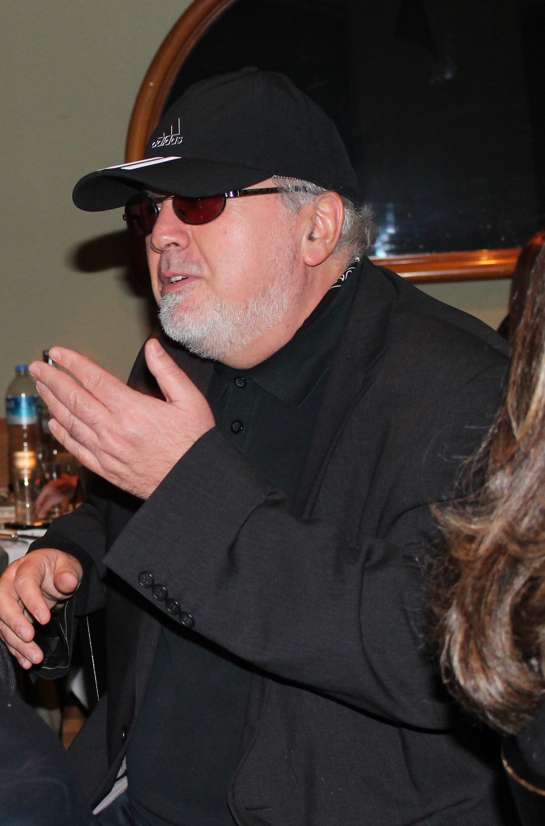 The picture of the author Hikmet Temel Akarsu